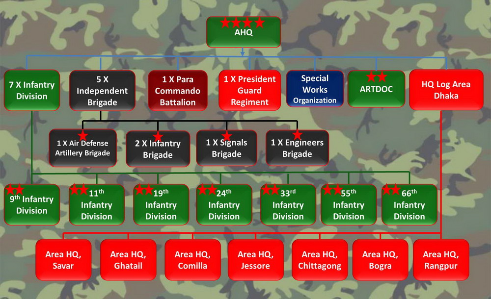 Bangladesh Army Organogram edited